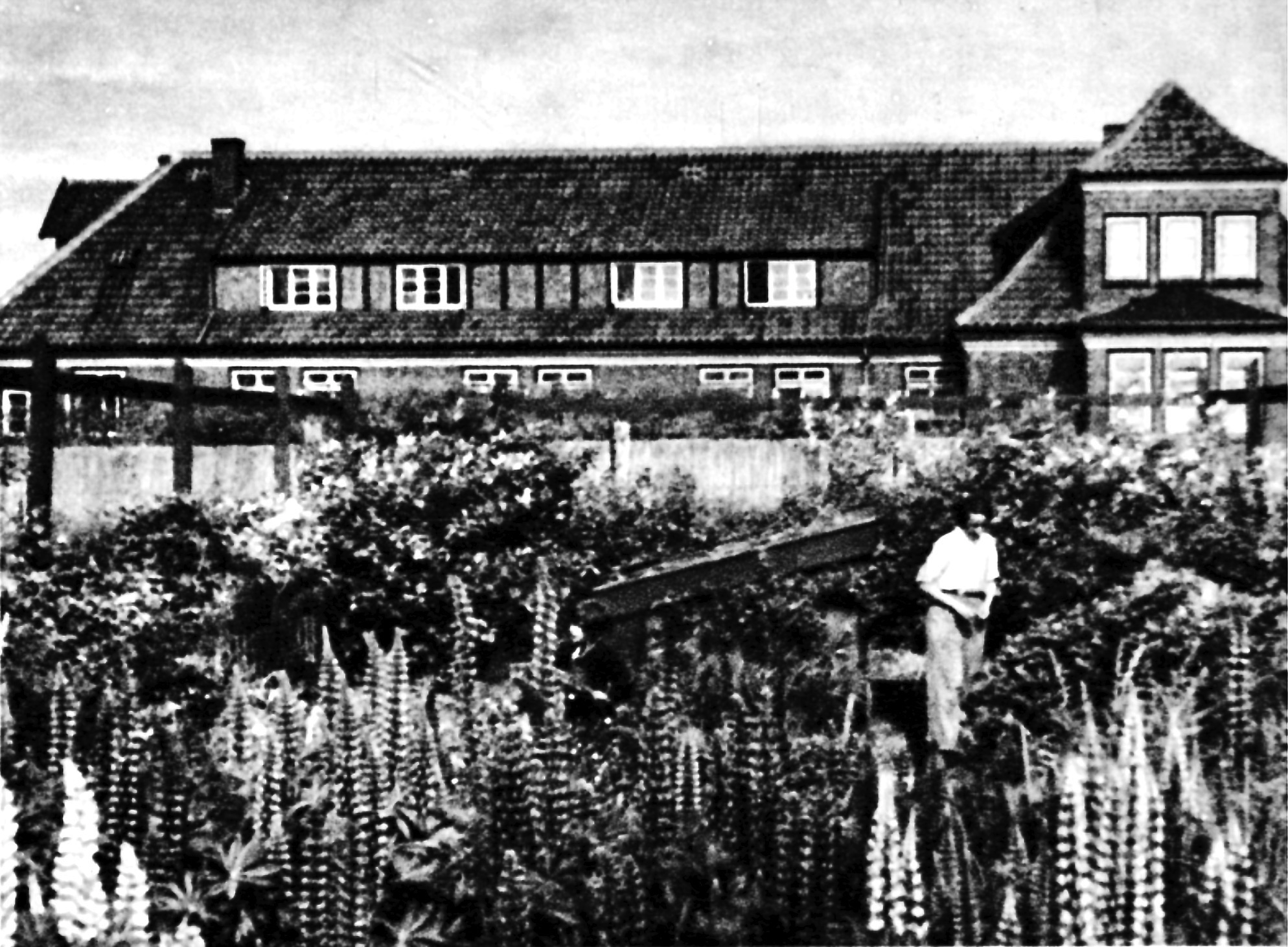 Westerly view: Arche (= Ark) of progressive Schule am Meer (= School by the Sea) on Juist Island, East Frisia, Prussia. Built in 1927 the building is now part of the island's youth hostel. For the former school it was part of their accomodation facilities, occupied by the eldest pupils who lived in single rooms, a single female teacher and another teacher's family: Dr. Paul Reiner (1886–1932), his wife Anni who was also a teacher and their four daughters. The picture shows the botanical garden of the school.